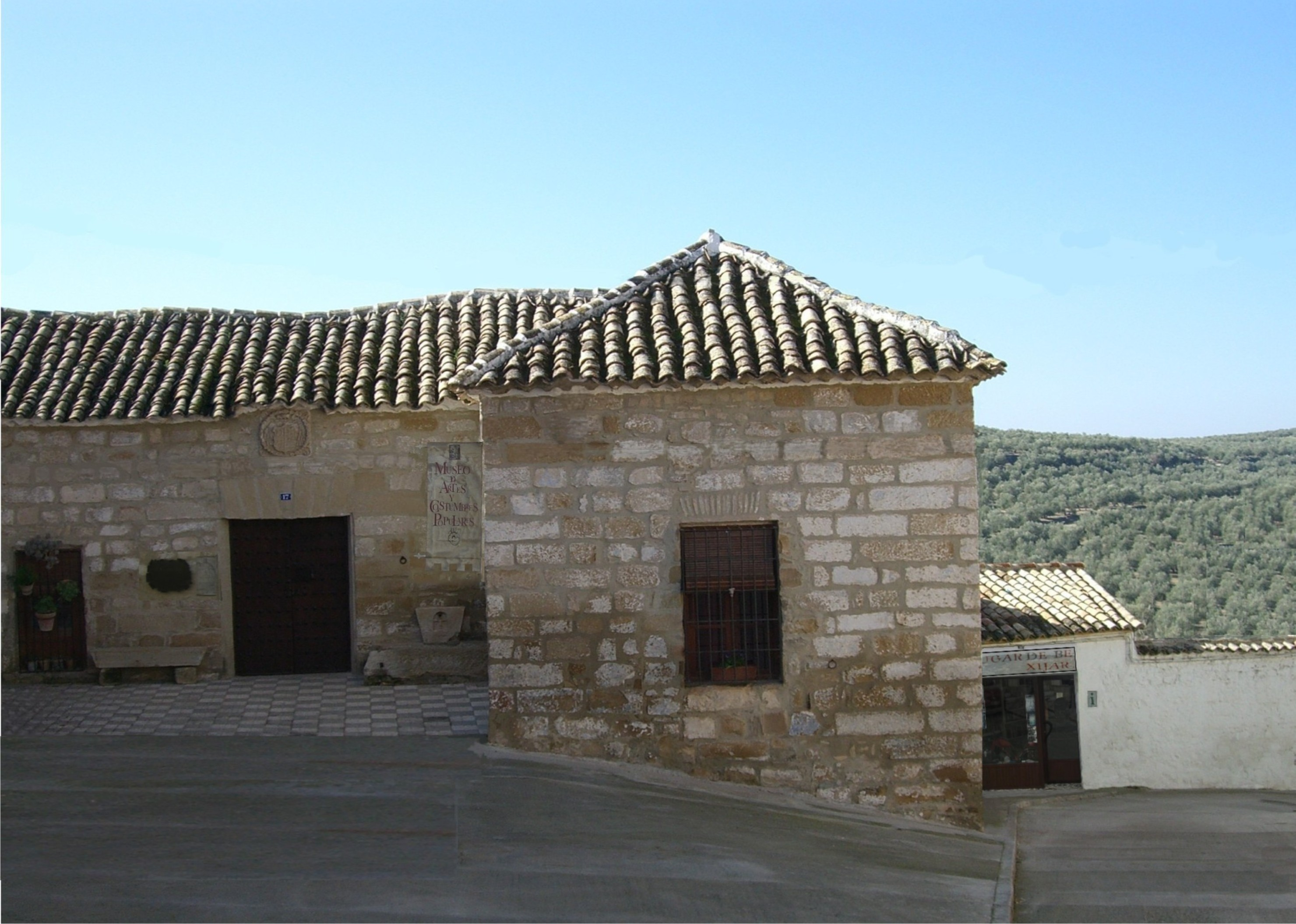 museo de artes y costumbre populares de Begíjar